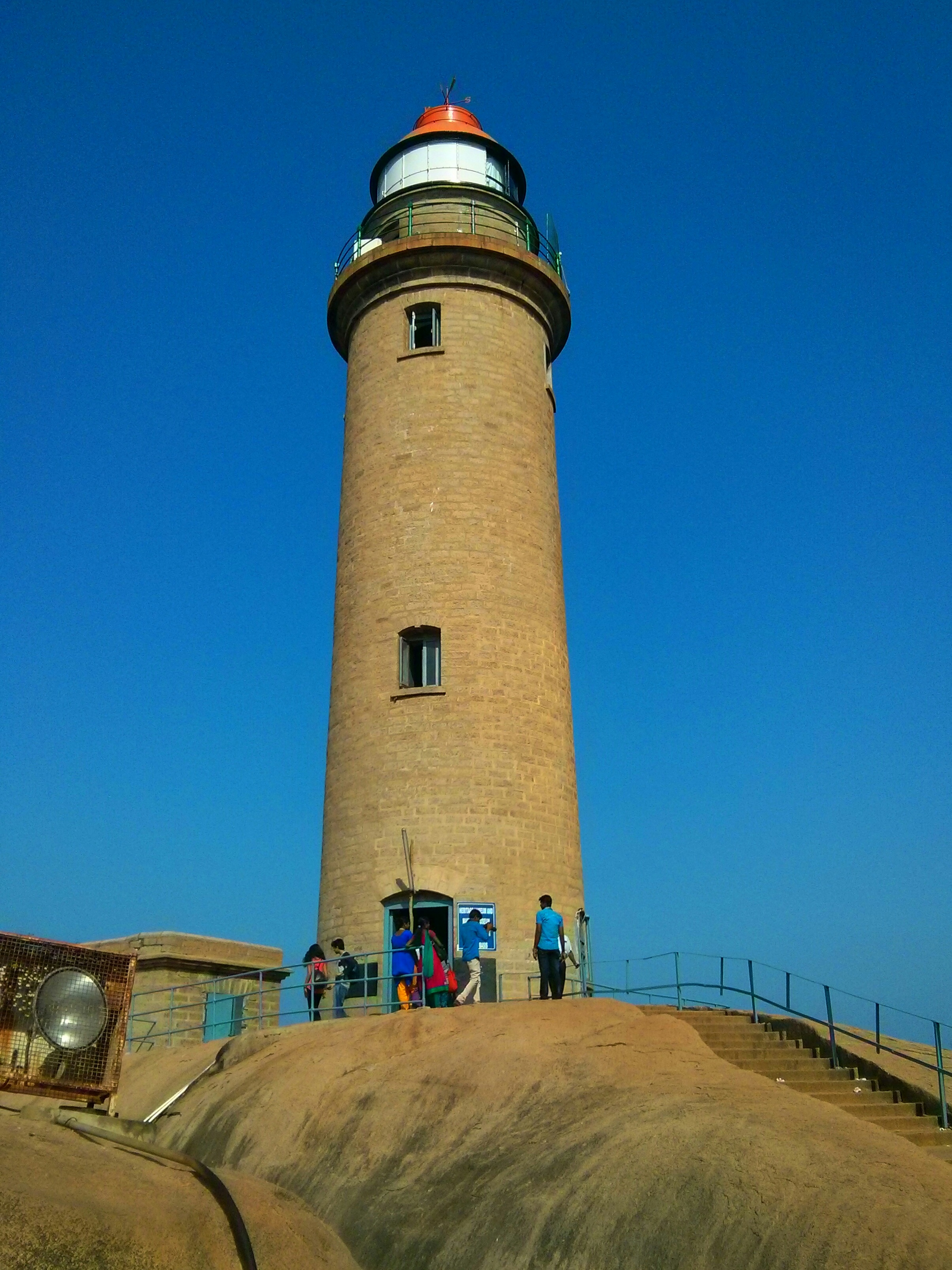 Lighthouse of Mahabalipuram